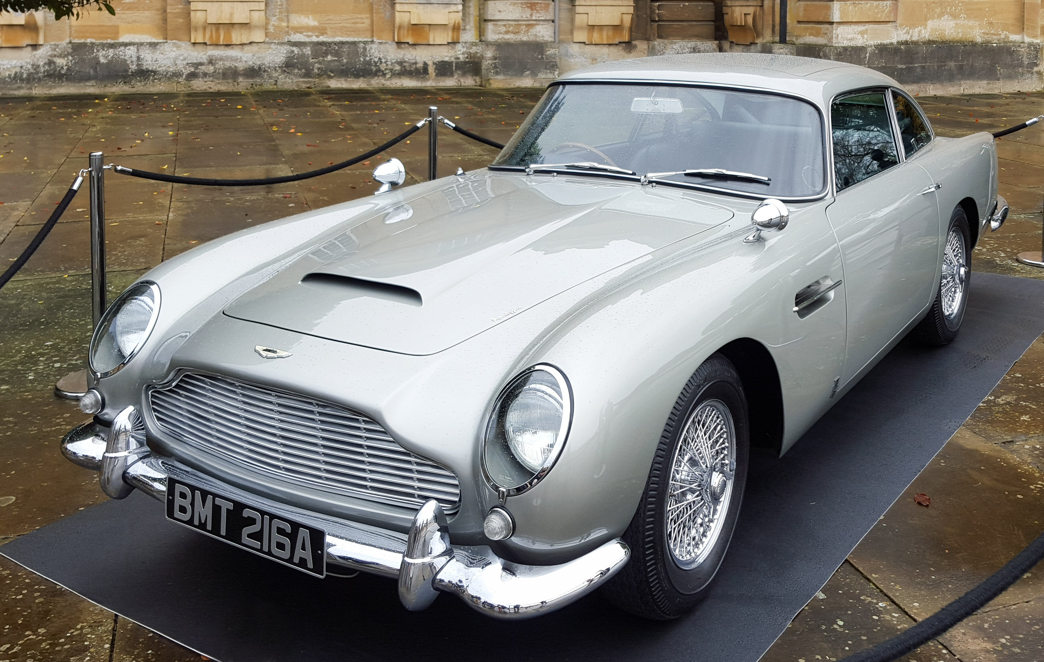 One of the Aston Martin DB5s used in the James Bond Skyfall film. Photographed in the Great Court at Blenheim Palace where it was on display for the premiere of the documentary DB10: Built for Bond.[1]